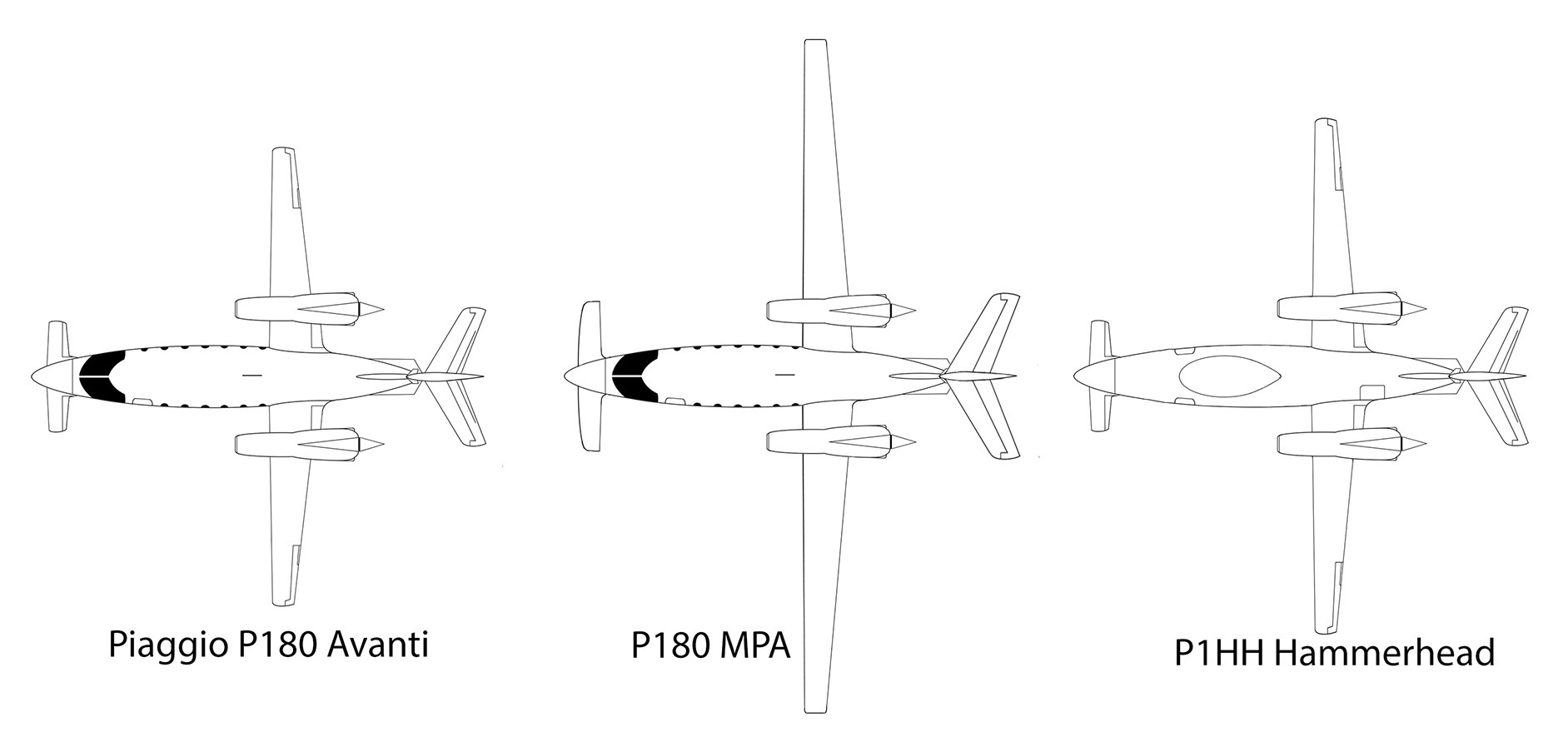 Comparison between Piaggio P180 Avanti, P180 Maritime Patrol Aircraft, P1HH HammerHead.